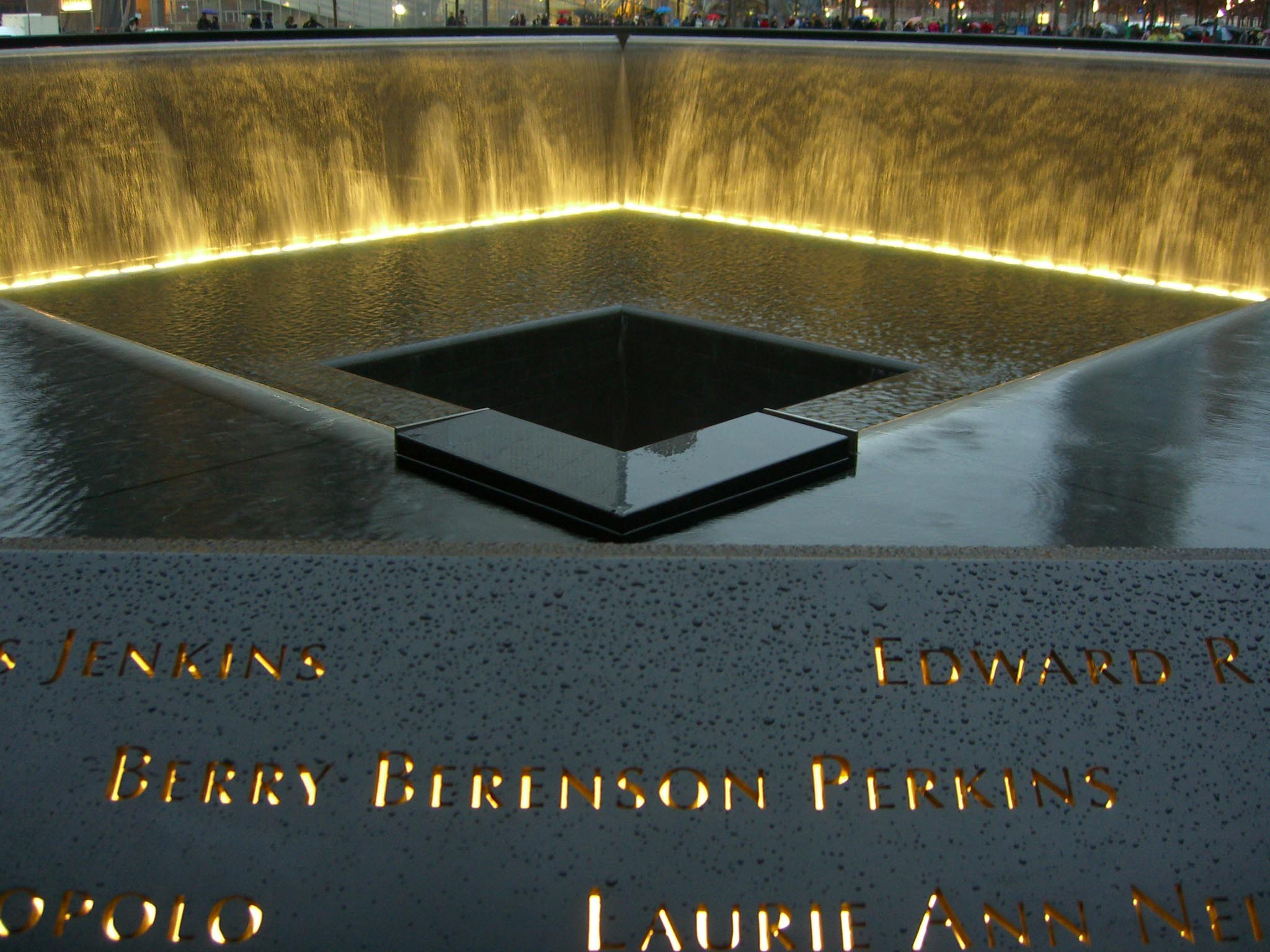 The name of Berry Berenson is seen with other 9/11 victims inscribed on bronze panel N-76 of the North Pool of the National September 11 Memorial in Manhattan, as seen on December 6, 2011. This photo was created by Luigi Novi. If you have any questions, you can contact me by sending me an email or User talk:Nightscream